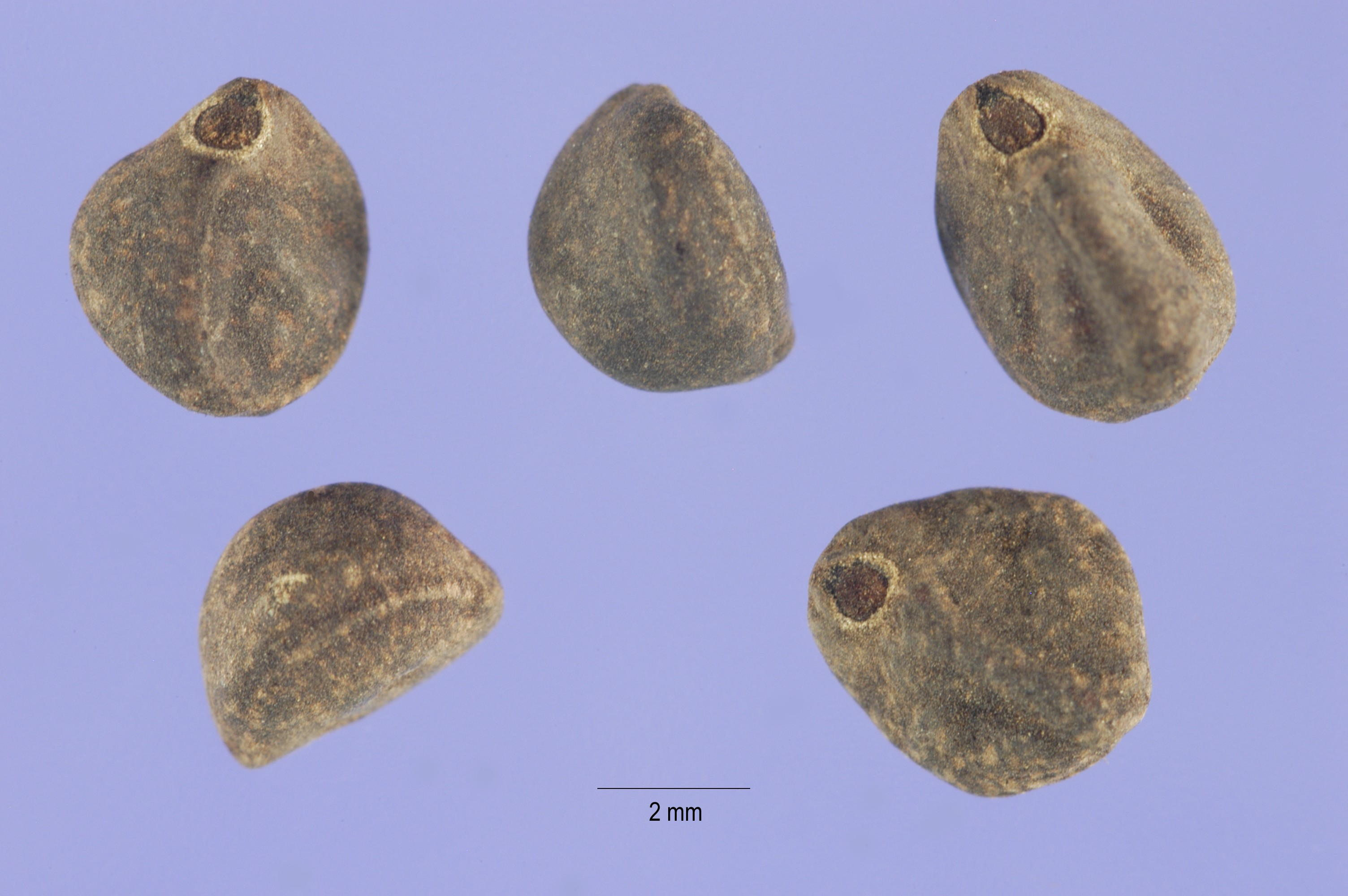 Ipomoea purpurea seeds. Provided by ARS Systematic Botany and Mycology Laboratory. Turkey.